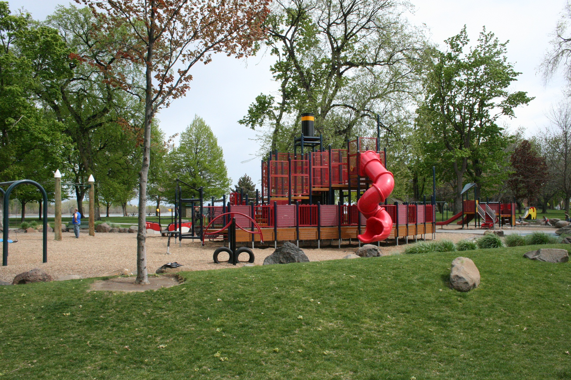 Howard Amon Park, 2011 Richland Washington